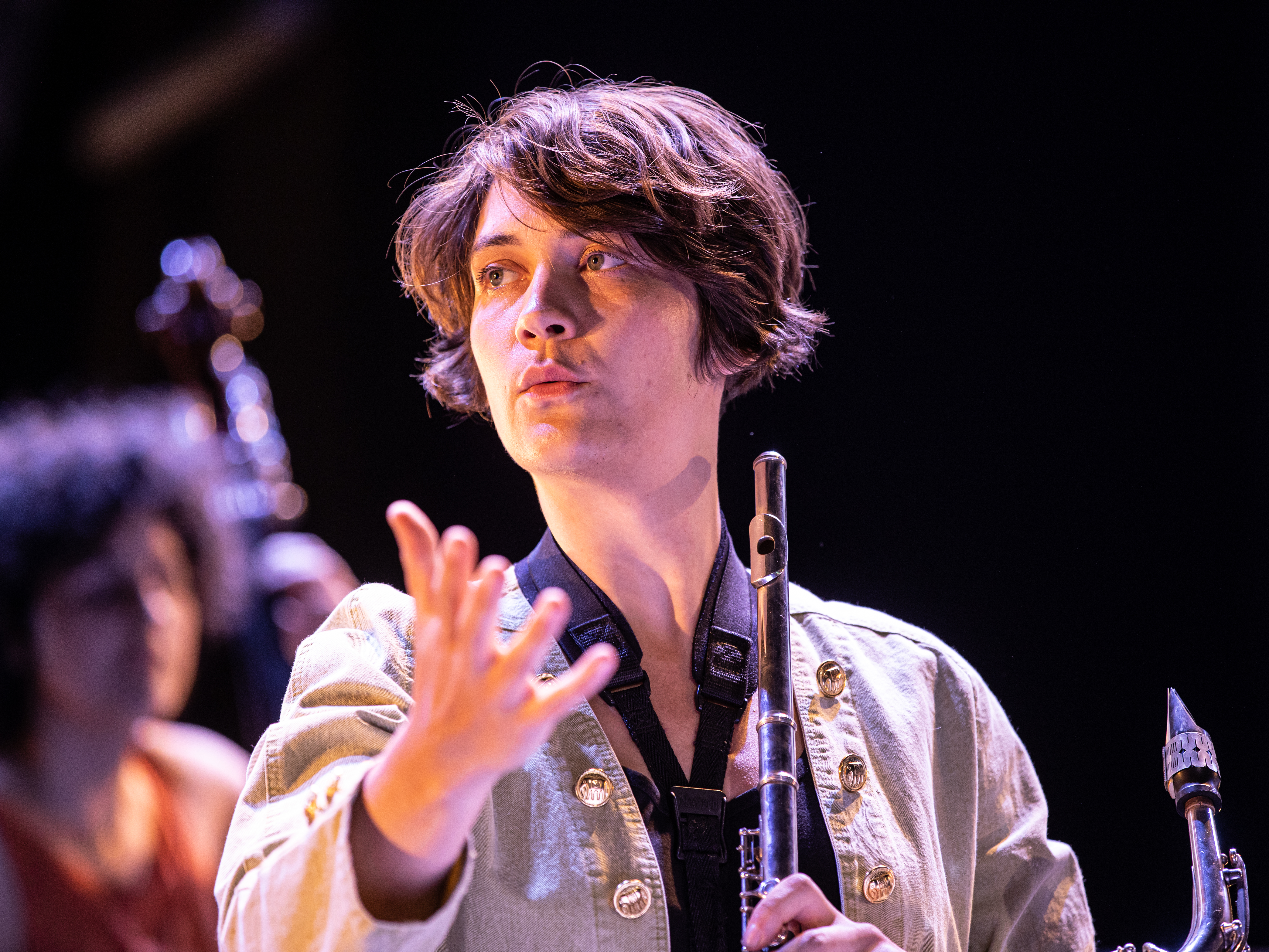 Jazz musician Luise Volkmann at the Moers Festival 2020